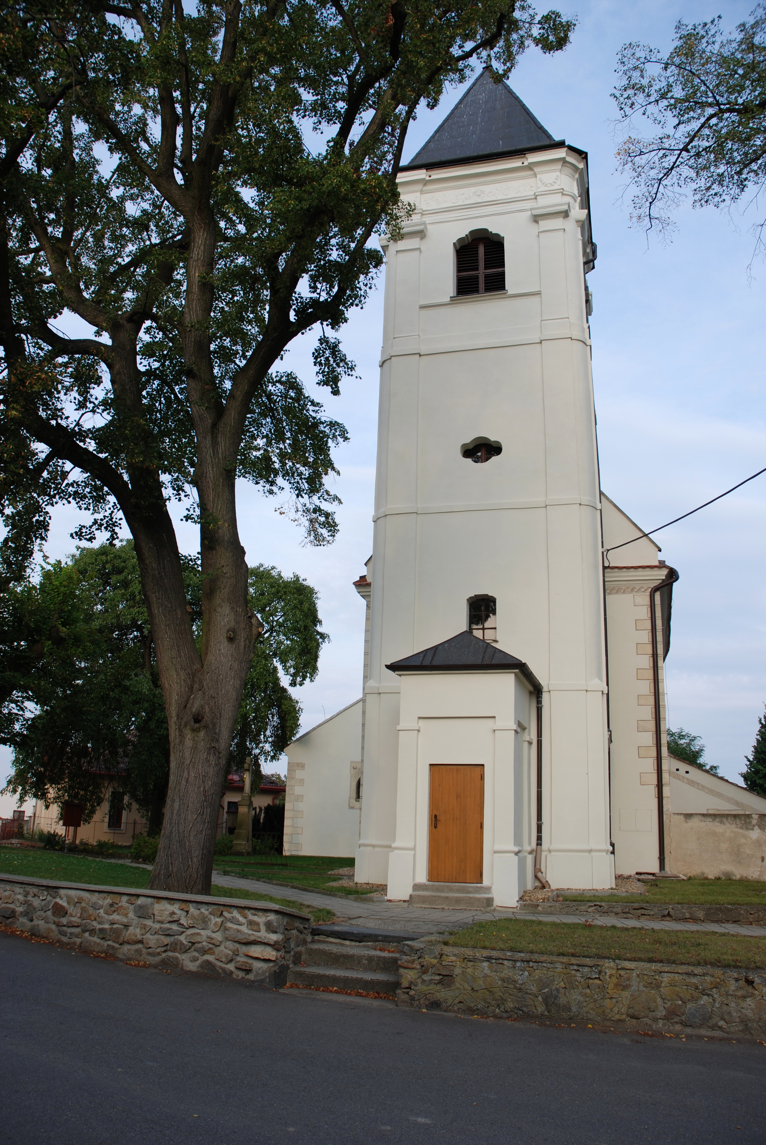 Hrotovice church